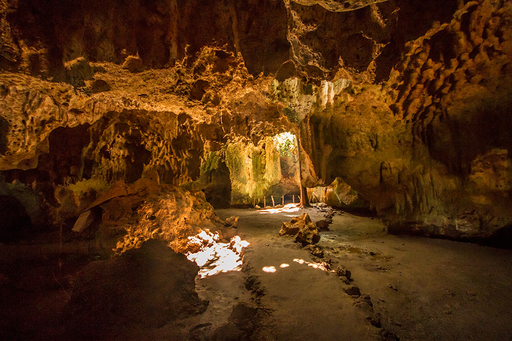 The Shimoni slave caves used by slave traders up until the 19th century are tourist attraction today.